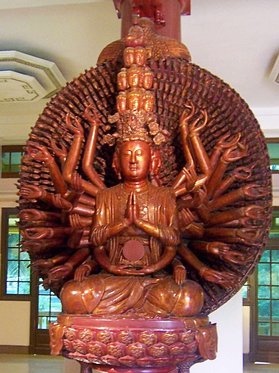 This wooden statue of Quan Am Nghin Mat Nghin Tay (Quan Am of 1000 Eyes and 1000 Hands) was created in Bac Ninh Province of Northern Vietnam around the year 1656 in Bắc Ninh Province, northern Vietnam, for the But Thap Pagoda. It is now located in the History Museum in Hanoi.